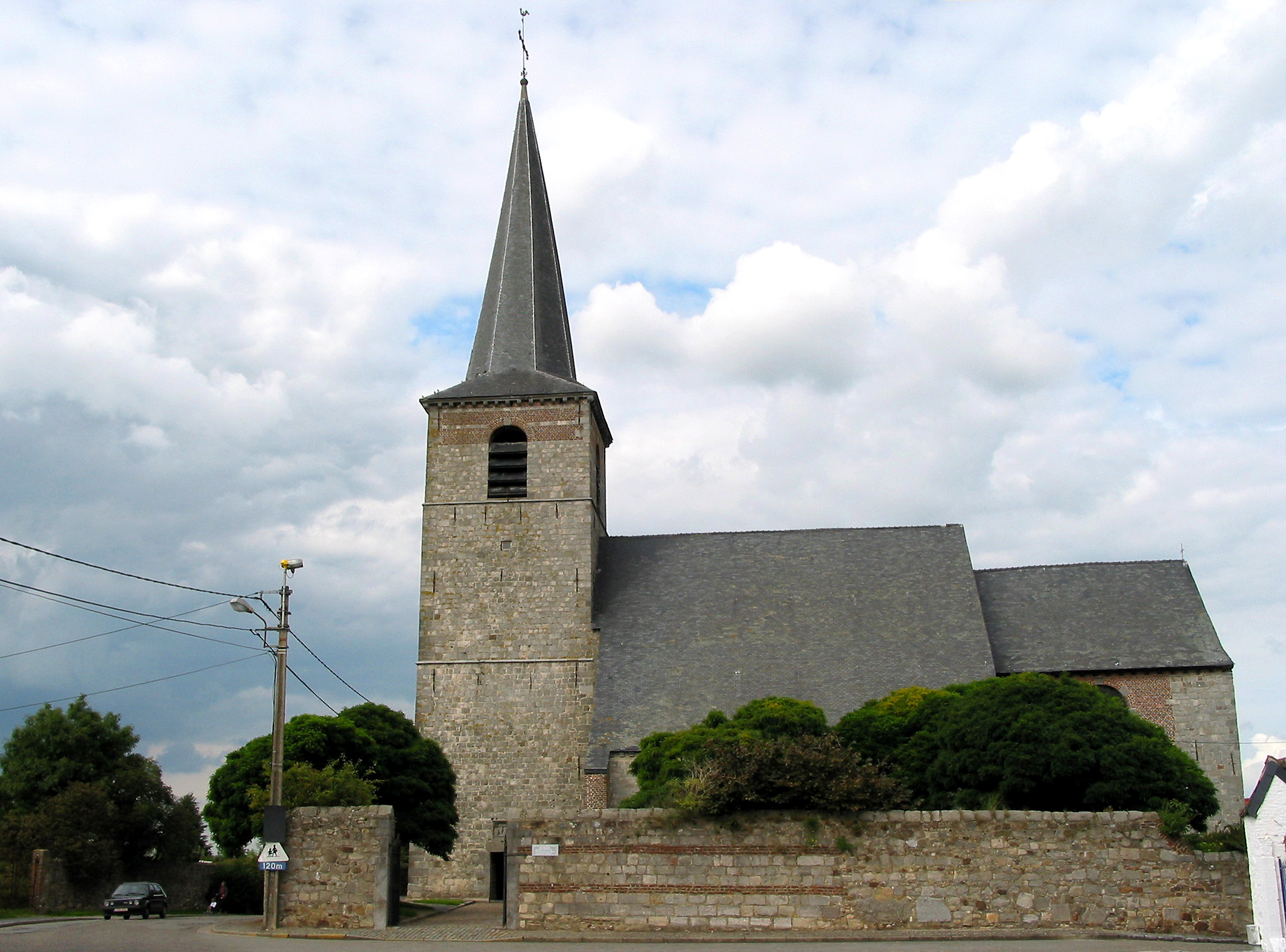 Estinnes-au-Val (Belgique), l'église Saint-Martin (XIII/XVIIIe siècles).